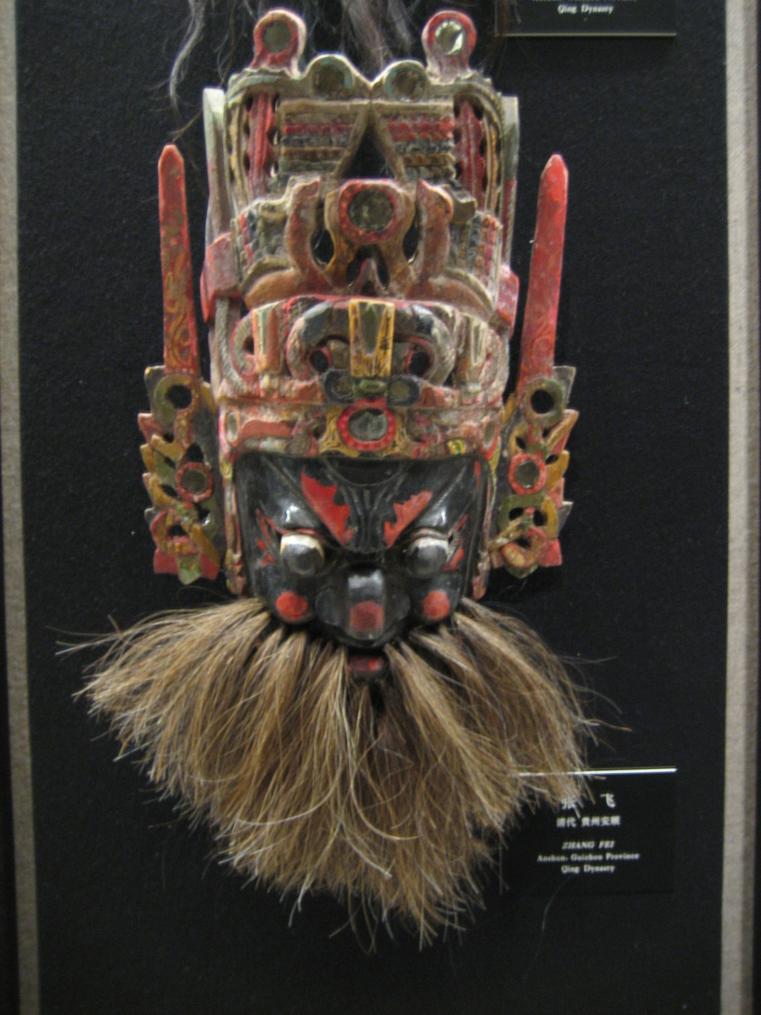 Mask of Zhang Fei, Qing Dynasty, produced at Anshun, Guizhou; photoed by Mountain, at Shanghai Museum